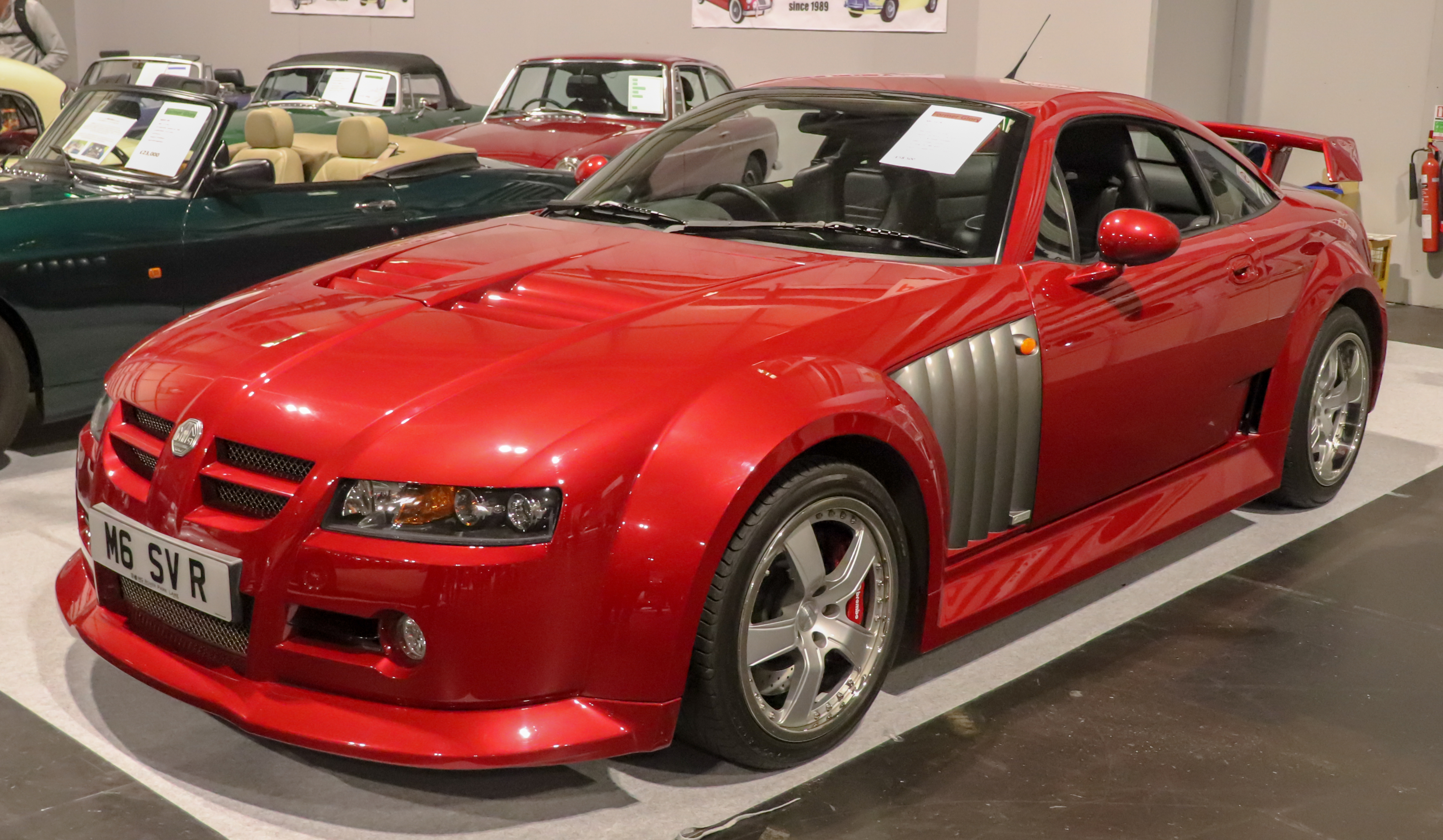 2005 MG XPower SV 5.0 Front Taken at the NEC Classic Motor Show 2018